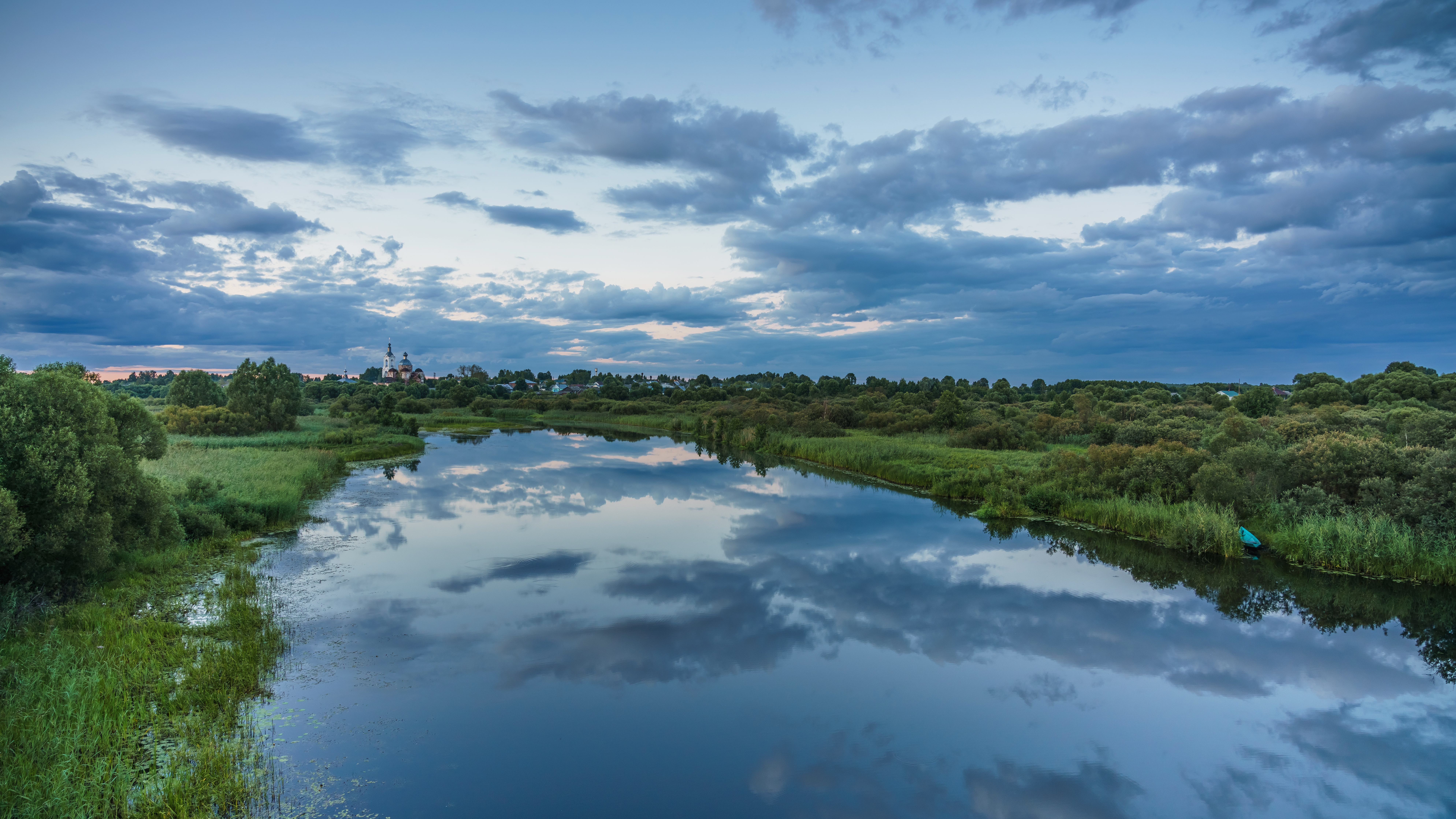 View of Myt, Ivanovo Oblast, Russia.